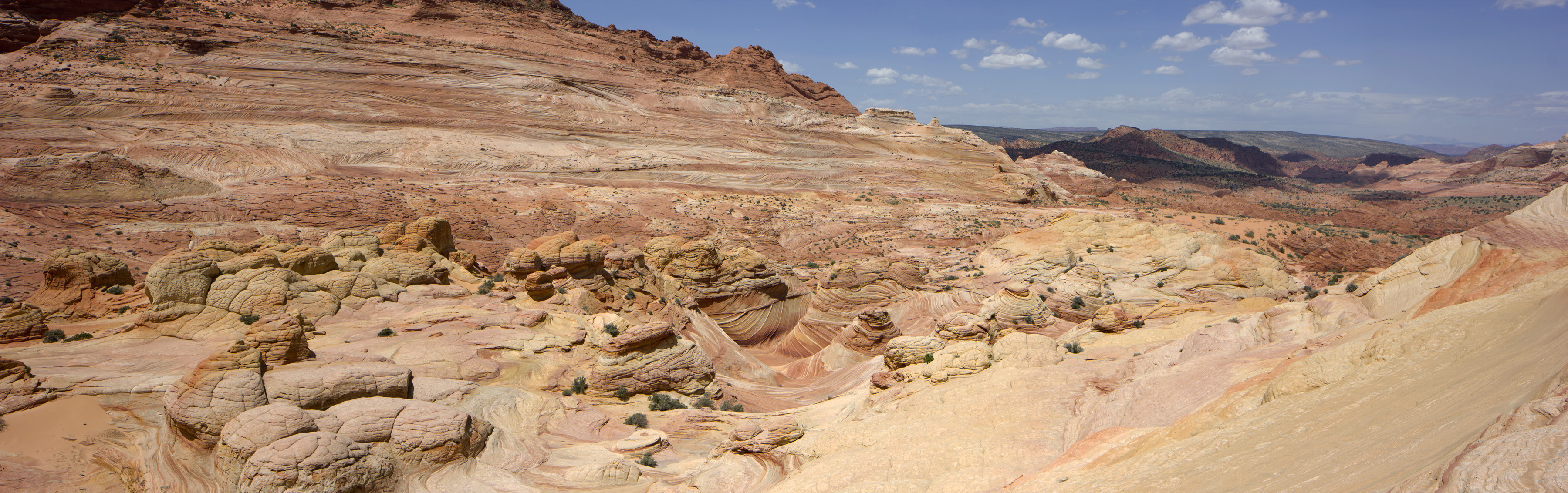 Panoramic photograph looking NNW over The Wave, Arizona.